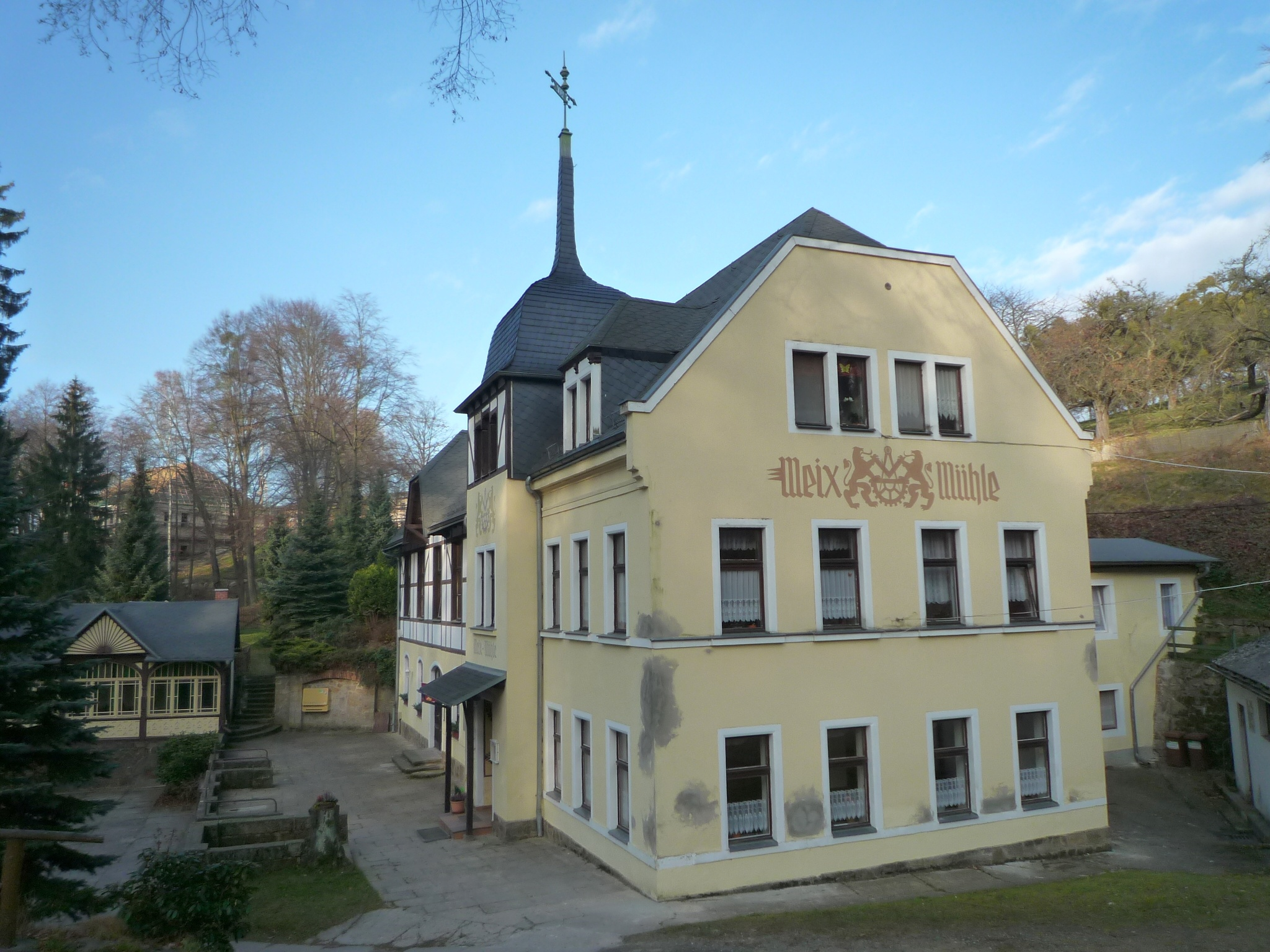 Meixmühle